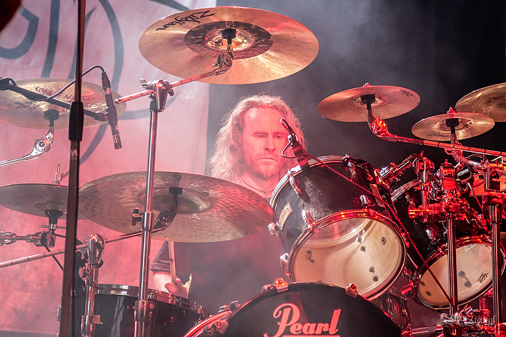 Psycroptic - 7.12.2012 - Music Hall, Geiselwind Psycroptic, Australian technical death metal band